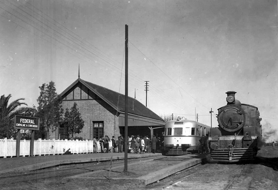 Federal train station, Urquiza Railway.